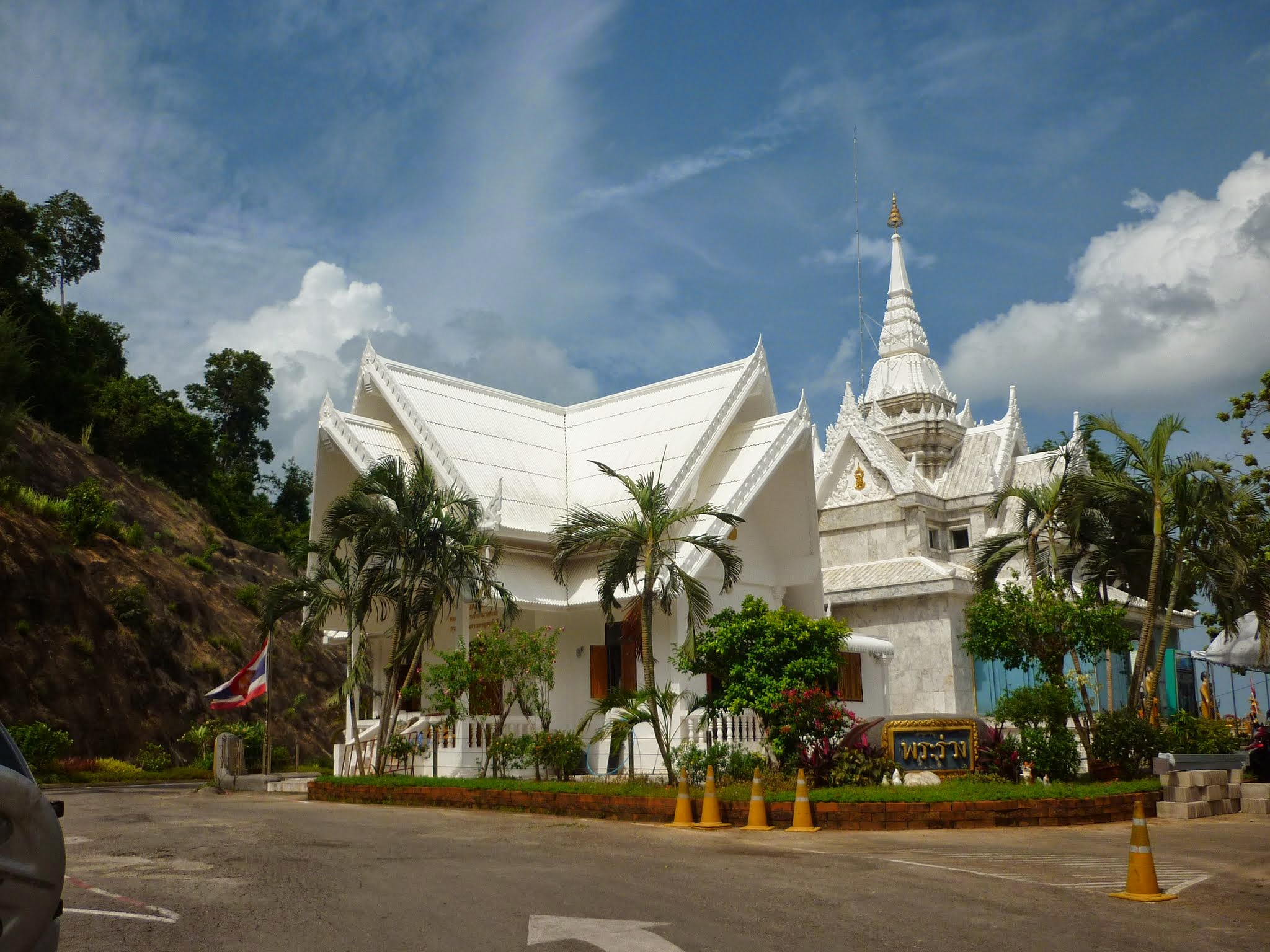 Hat Sai Ri, Mueang Chumphon District, Chumphon, Thailand